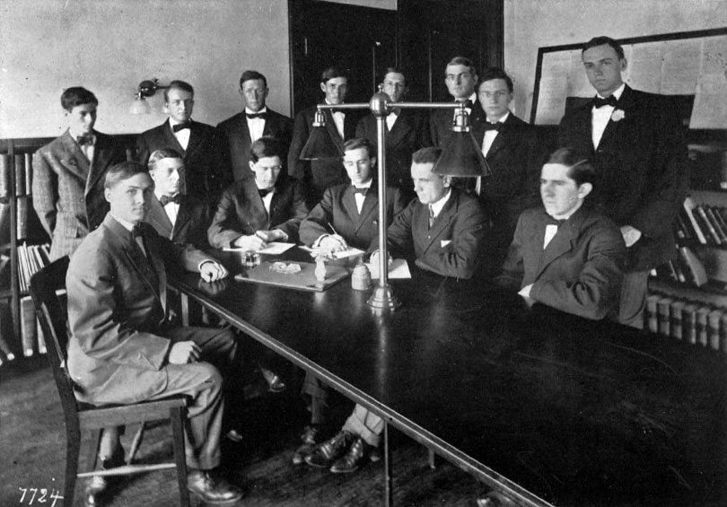 Editorial board of the first edition of the Blue Print, Georgia Tech's yearbook. Source: 1908 Blue Print. Available online